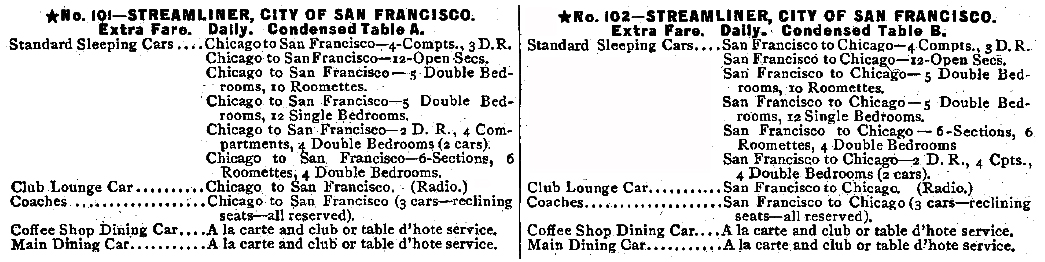 Consists of the Chicago-Oakland/San Francisco C&NW-UP-SP Streamliner City of San Francisco TR 101-102 (1948)